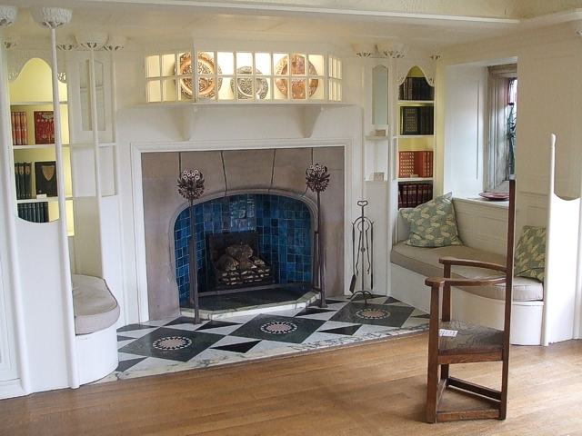 Blackwell - White Room Fireplace There are several elaborate and attractive fireplaces in this interesting house, this one is particularly fine in my opinion.